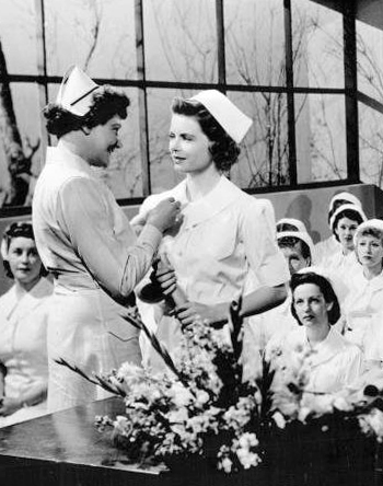 Promotional still for the 1944 short film, Reward Unlimited, dramatizing the need for volunteer military nurses for the U. S. Cadet Nurse Corps during World War II. Snipe attached to reverse side reads as follows: 4. The graduation class is displayed in Vanguard's "Reward Unlimited", U. S. Cadet Nurse short subject in which Fay Holden as the Superintendent of nurses acknowledges Dorothy McGuire as Peggy Adams and fellow students as full fledged members of the humanitarian organization so important to the war effort.